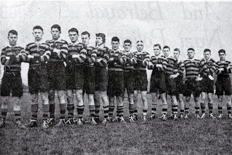 Author:Unknown Date created:17 July 1940 Image title:Christ's College rugby team line-up : shown before the annual School-College rugby match. Source: Christchurch City Libraries Description:Students Rugby team of Christ's College, Canterbury, 1940.